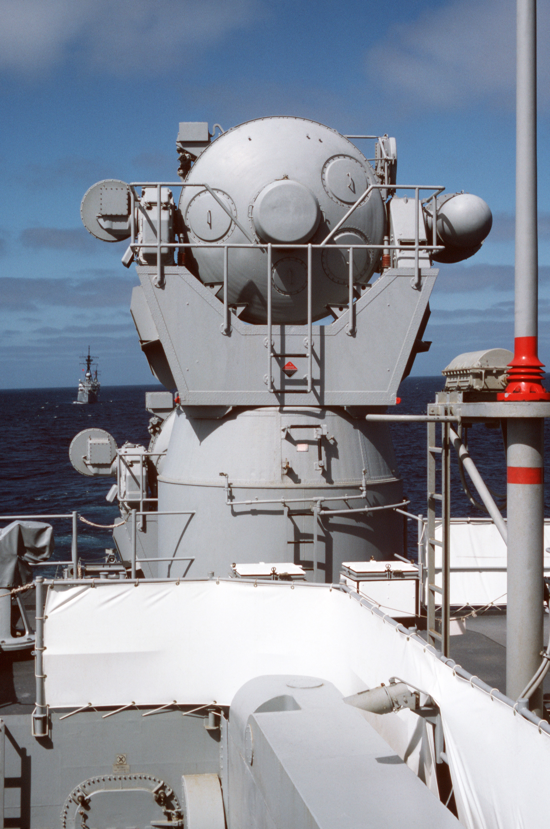 Rear view of the aft AN/SPG-55B fire control radars aboard the U.S. Navy guided missile cruiser USS Worden (CG-18) on 1 July 1986. A HF vertical antenna rod with a red basement and a matching network box ist visible on the right. It was used for long range communication. The guided missile destroyer USS Goldsborough (DDG-20) is visible astern.